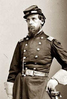 Painter James Fairman (1826-1904), as a Union Colonel (cropped)